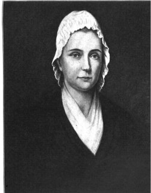 Only known portrait of Mary Randolph Keith, mother of Chief Justice John Marshall